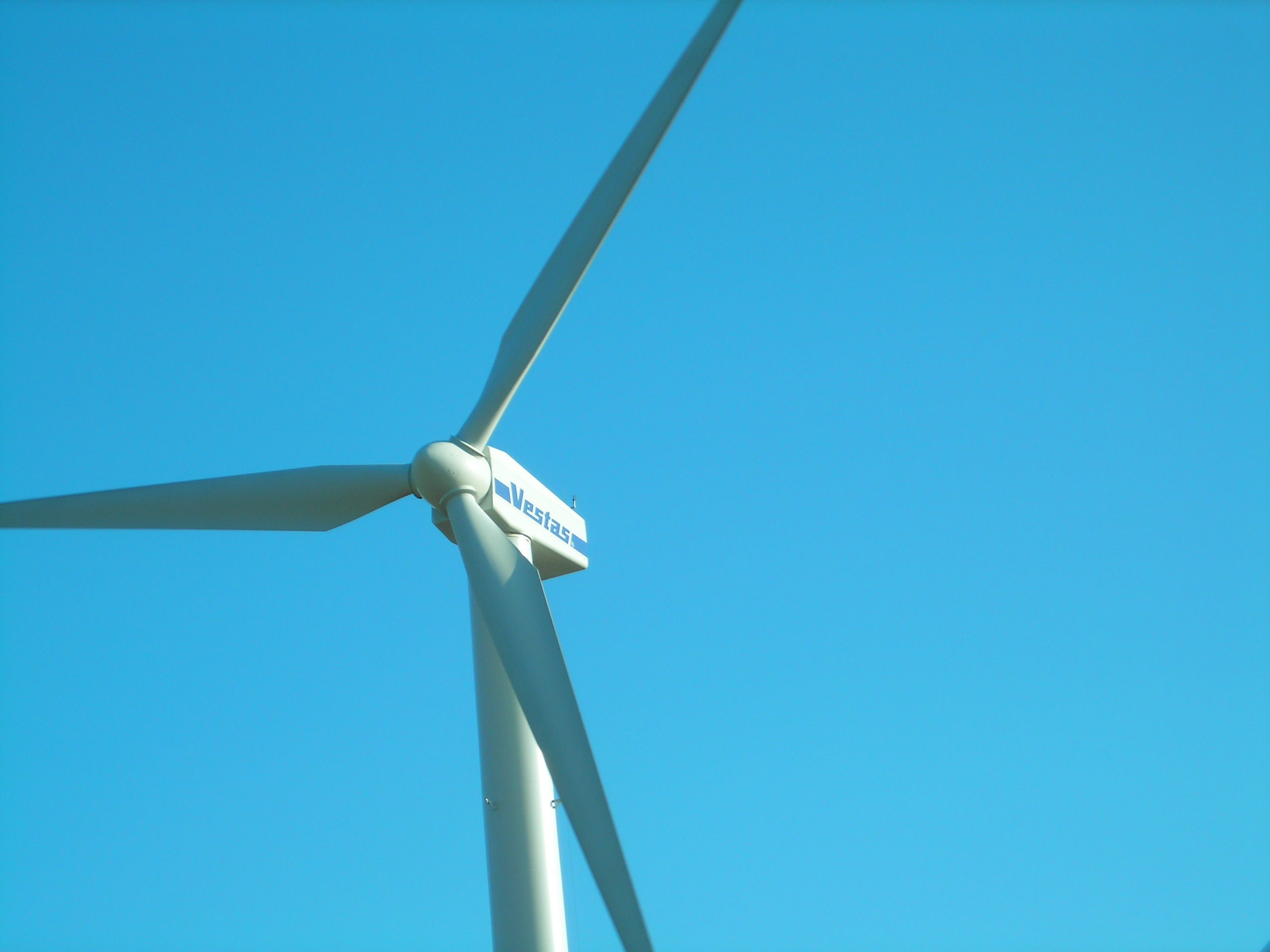 Vestas wind turbine near Lubbock, Texas.